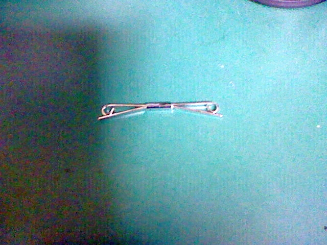 A color pin is put on [shirt]